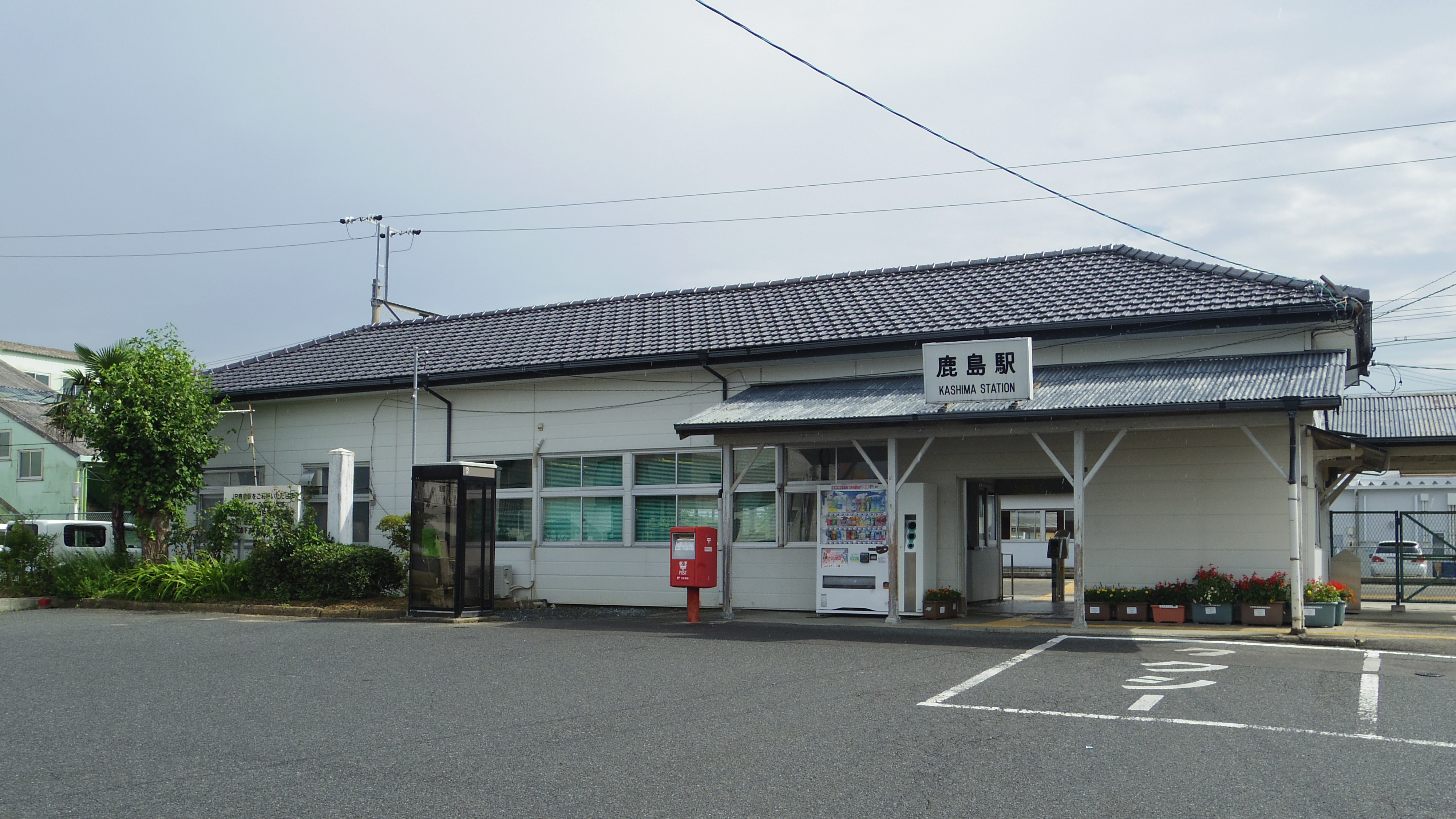 The building of Kashima Station